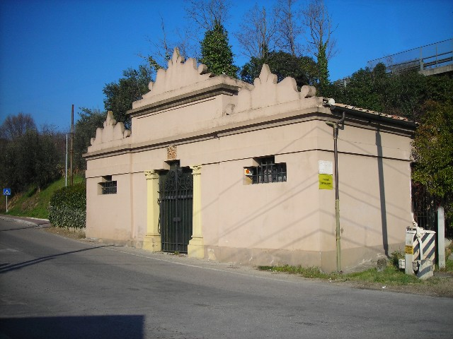 entrance of the Volumni's Hypogeum, Ponte San Giovanni, Perugia, Umbria, Italy